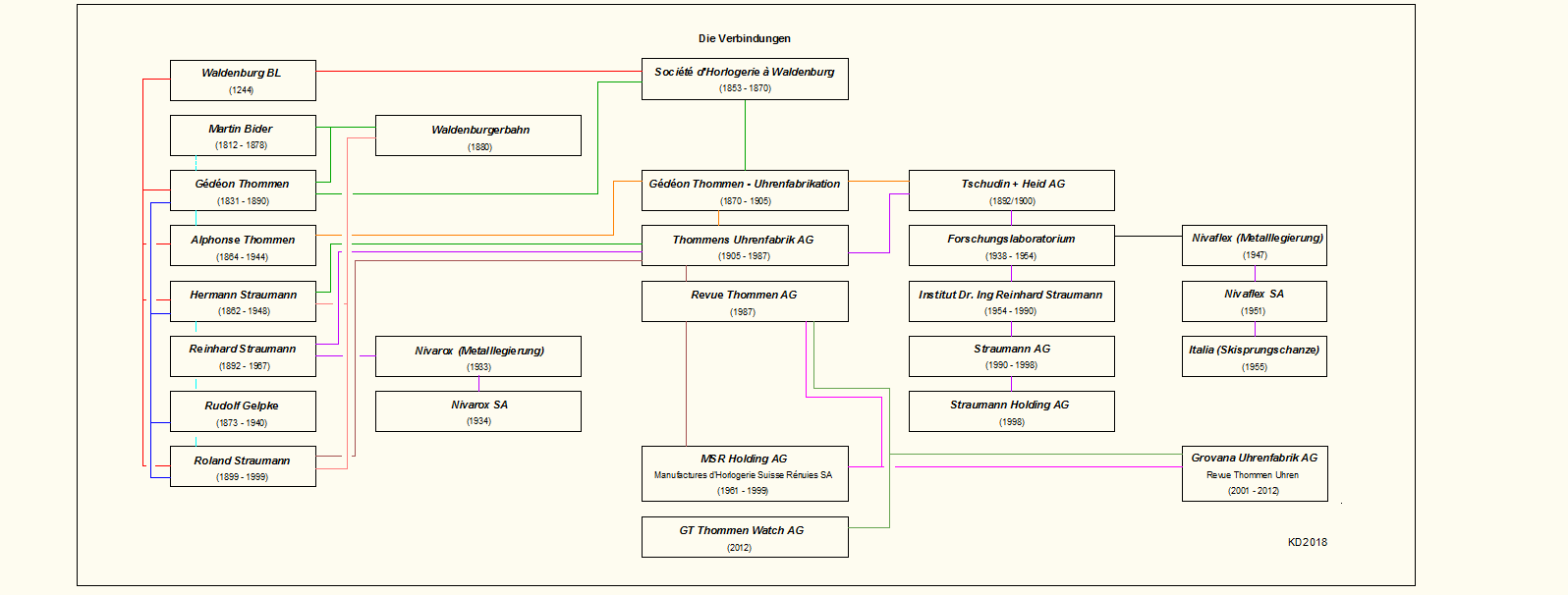 Representation of the connections between institutions, persons and companies